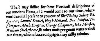 List of English poets of the Elizabethan/Jacobean era by William Camden.